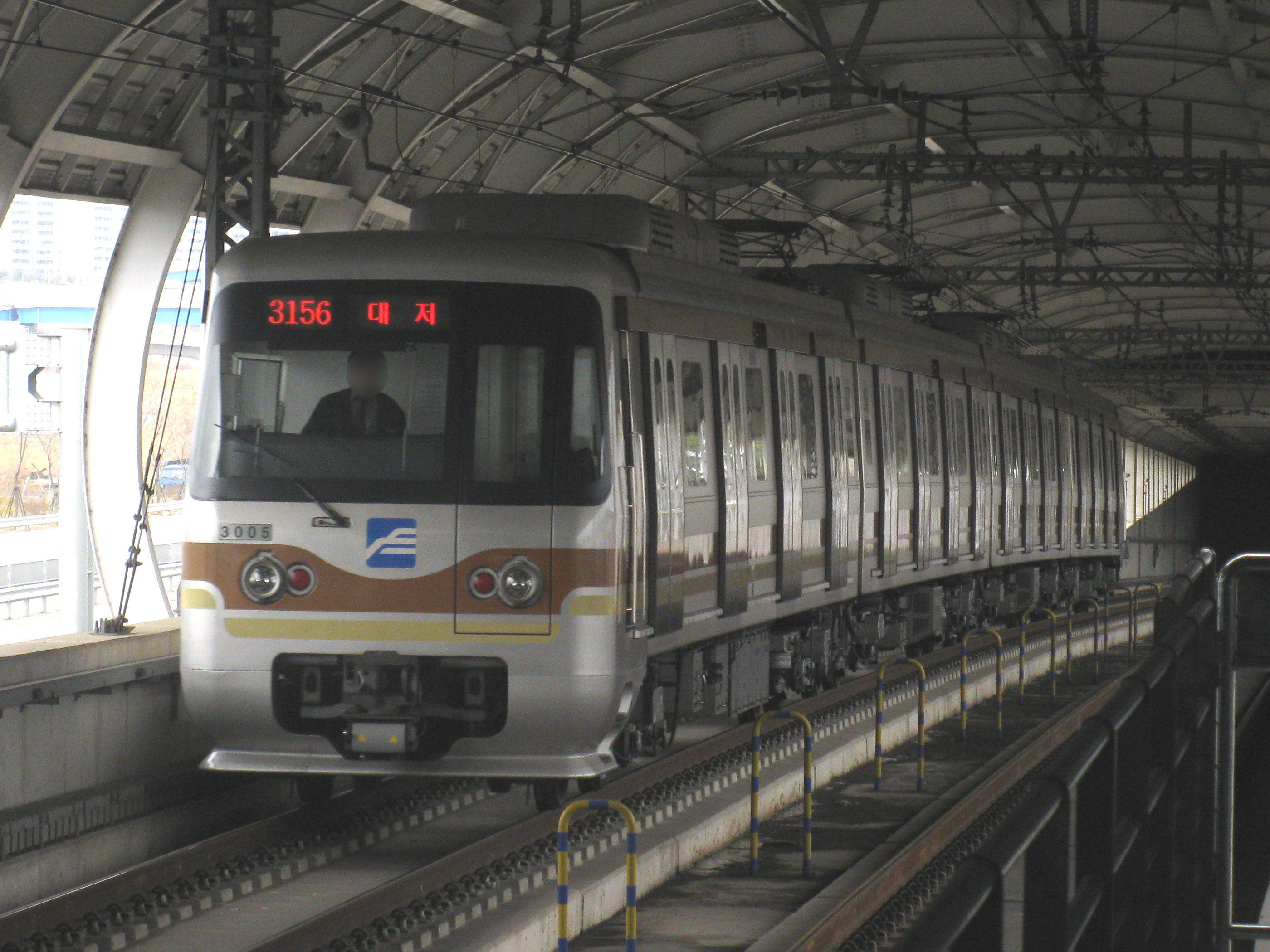 BTC Class 3000 5th unit